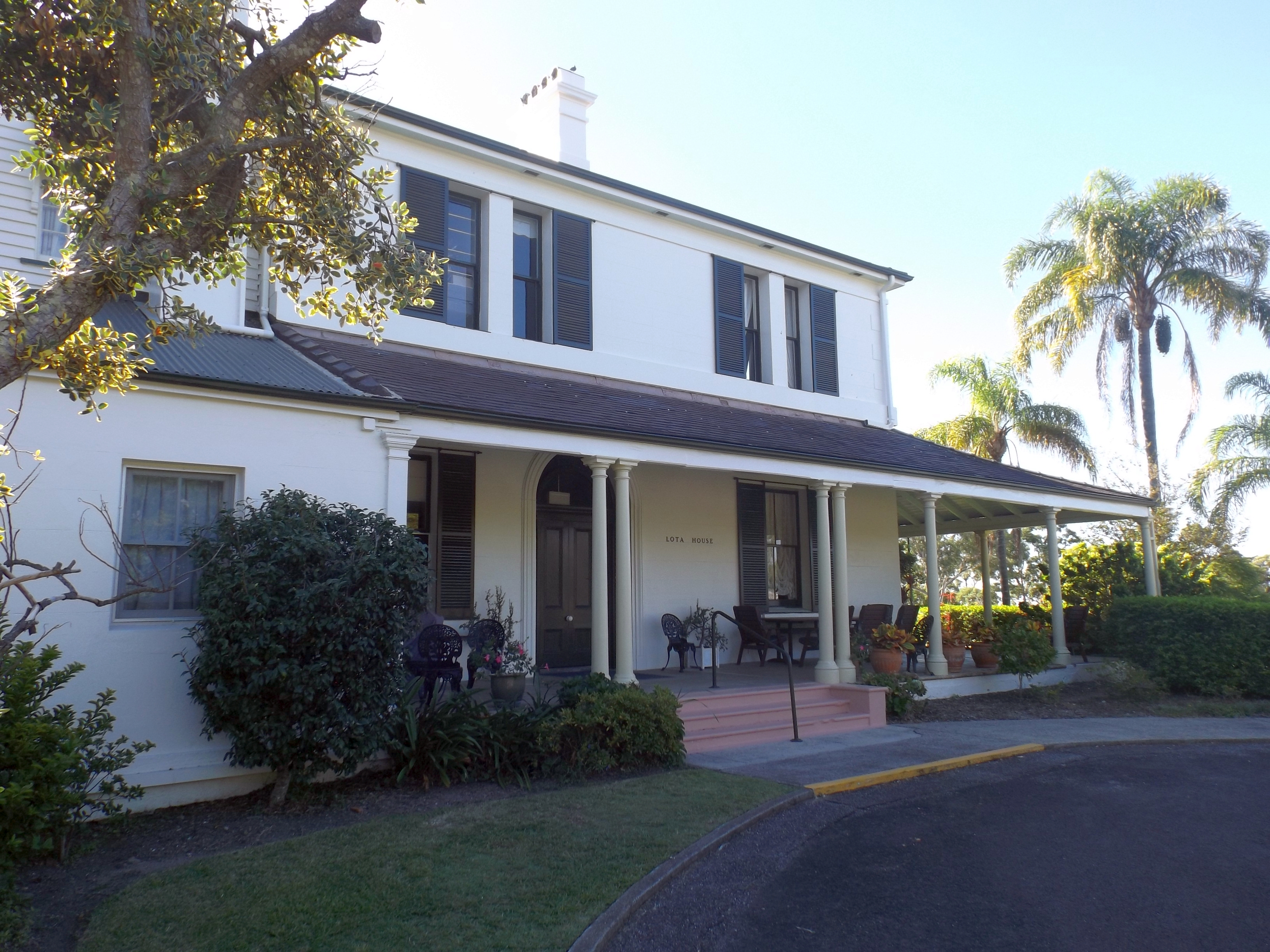 Photo of Lota House at Lota, Brisbane, Queensland, Australia.